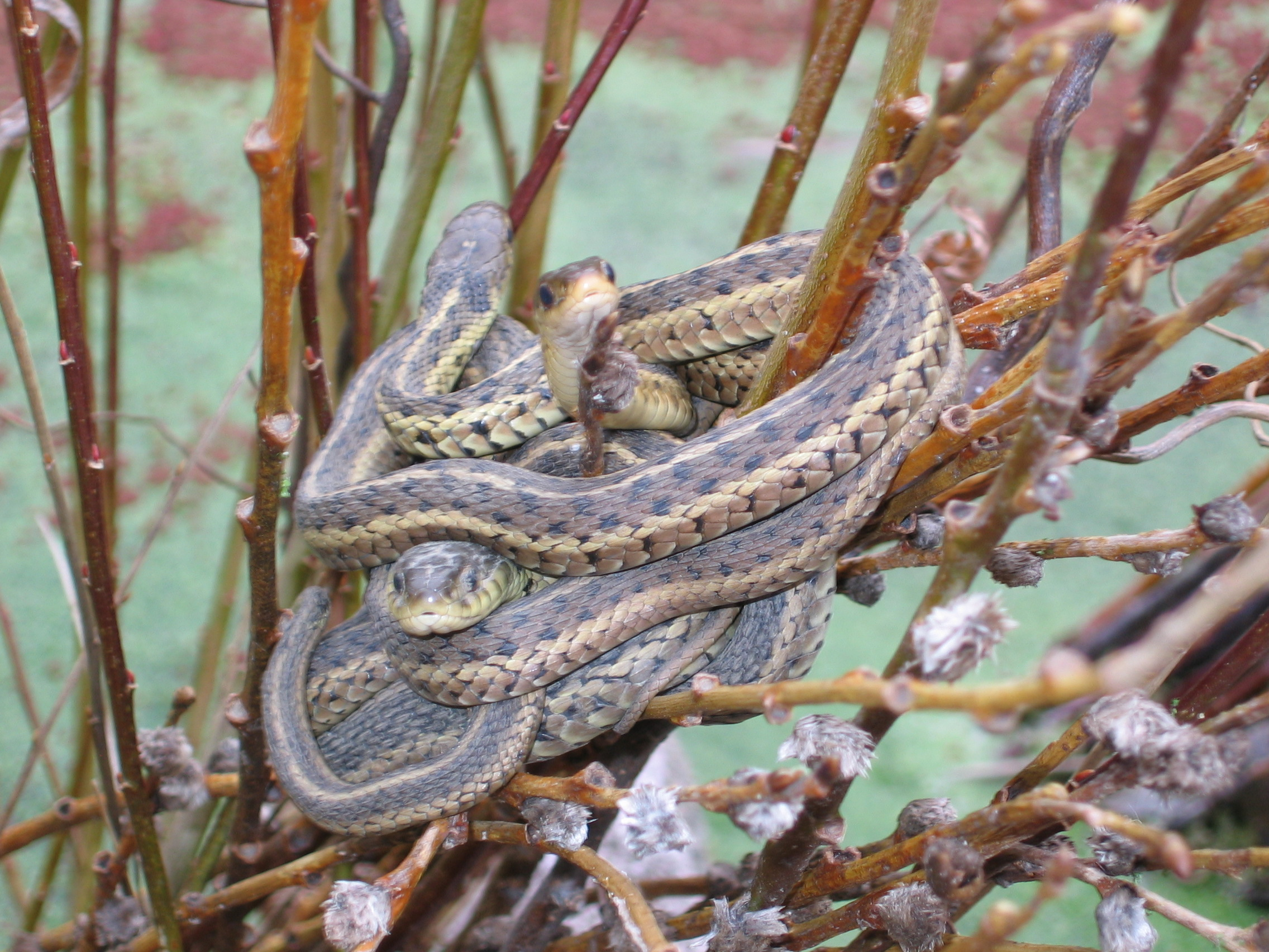 Mating garter snakes. One snake has a large gouge (presumably bitten) out of his neck.